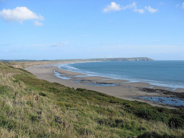 Porth Neigwl from footpath off old road to Rhiw, near to Rhiw, Gwynedd, Great Britain. Porth Neigwl on an October afternoon in 2003. It was only when we got down to the beach that we saw the sign at the bottom saying that the cliffs were unstable and the footpath closed.